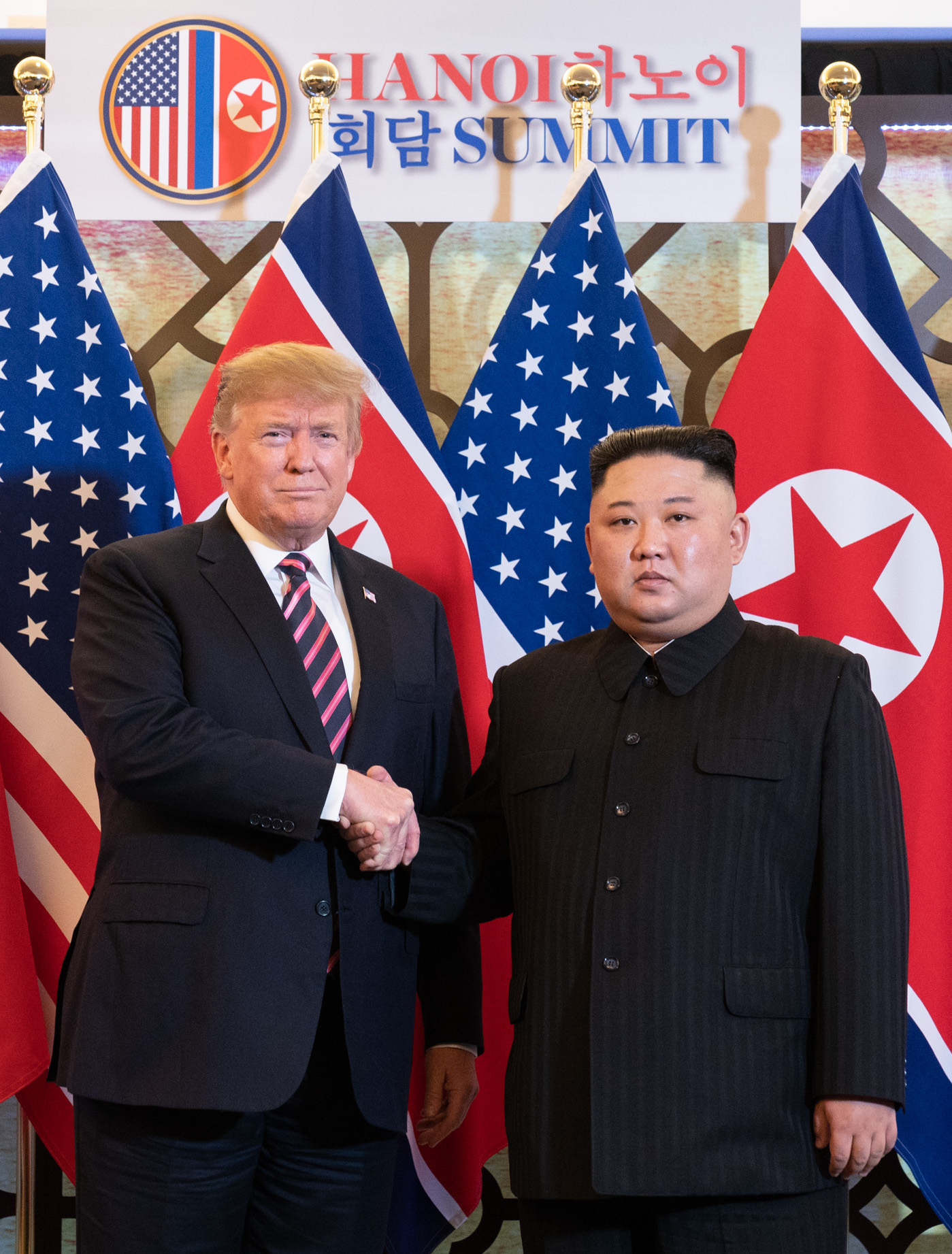 President Donald J. Trump is greeted by Kim Jong Un, Chairman of the State Affairs Commission of the Democratic People’s Republic of Korea Wednesday, Feb. 27, 2019, at the Sofitel Legend Metropole hotel in Hanoi, for their second summit meeting. (Official White House Photo by Shealah Craighead)